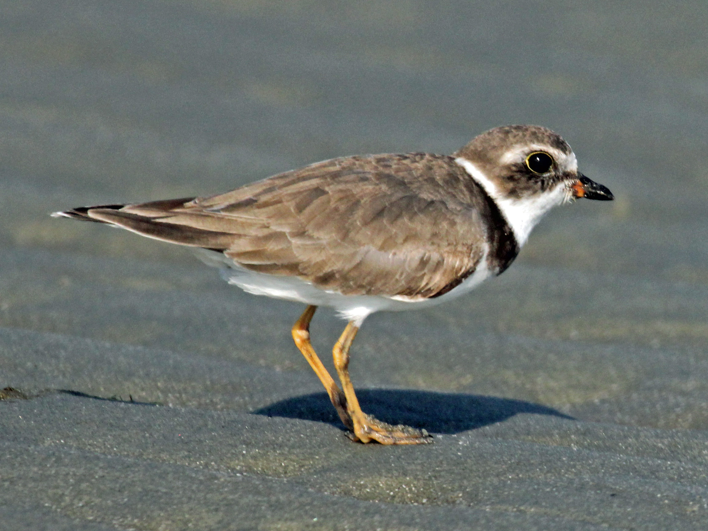 Semipalmated Plover (Charadrius semipalmatus)) - Sunset Beach, North Carolina